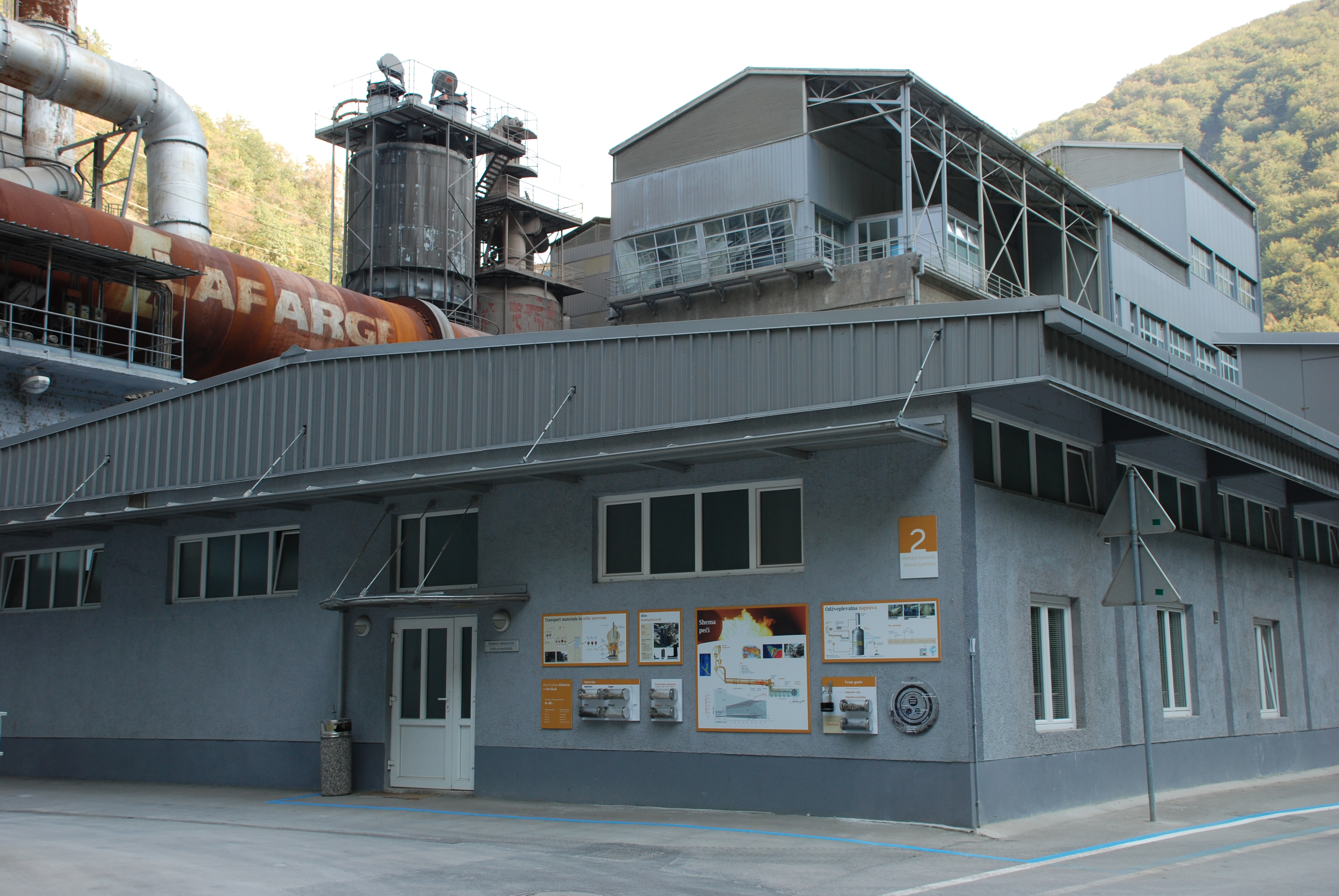 Točka na industrijski poti v cementarni Lafarge v Trbovljah. Place on industrial tourism path in Lafarge cement plant Trbovlje.